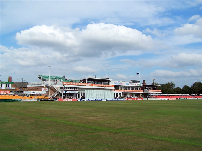 Grace road pavilion taken by kev747